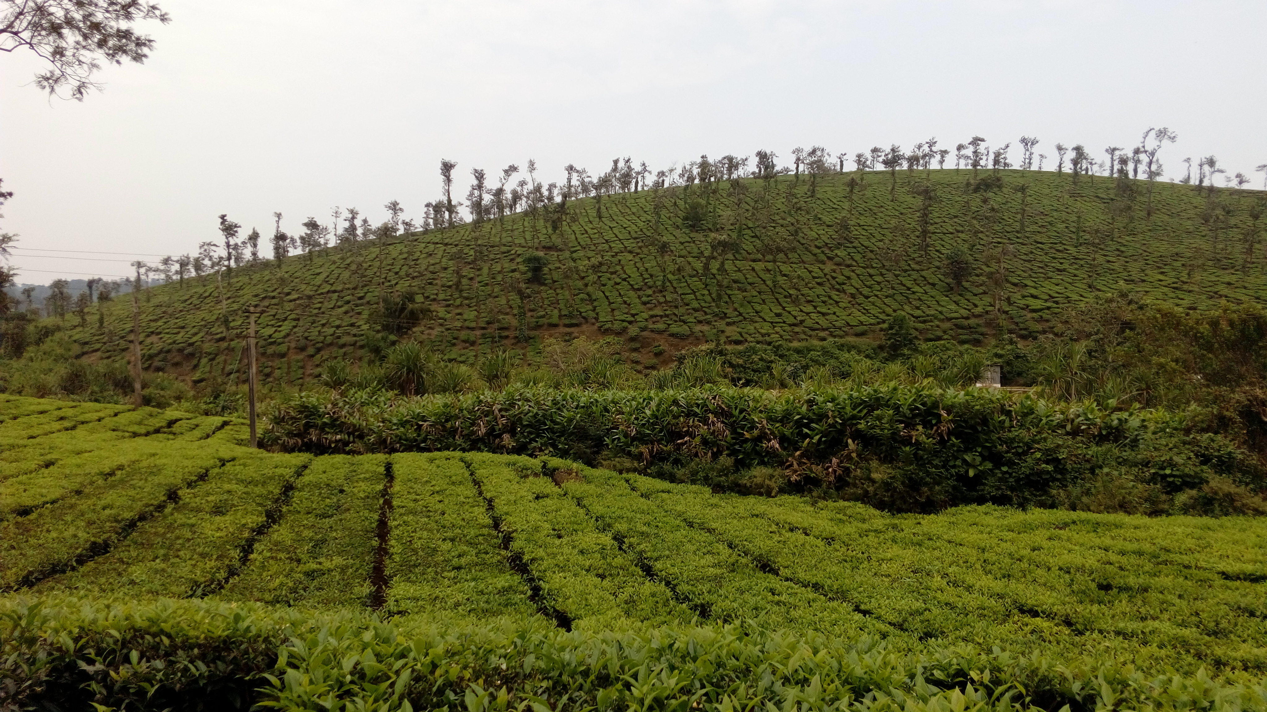 Estate in Coorg,Karnataka